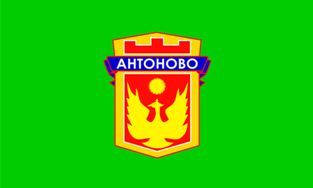 Flag of Antonovo municipality, Bulgaria